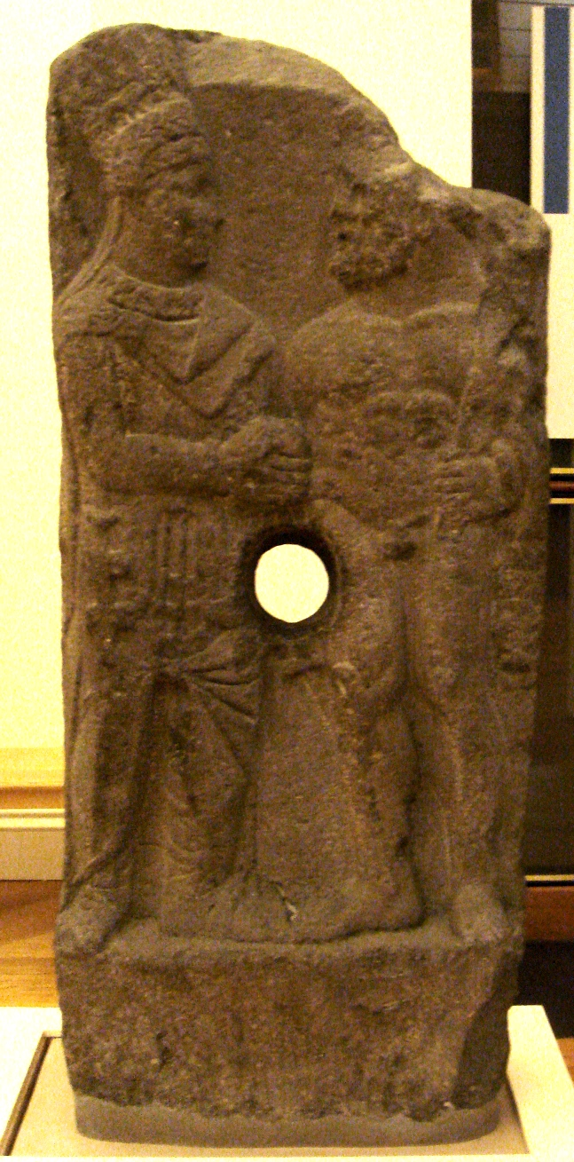 Antiochus I of Commagene, shaking hands with Herakles. 69-31 BCE. British Museum. Personal photograph 2006. Միթրան փռուգիական գլխարկով աջ կողմում, իսկ Անտիոքոս Ա Կոմմագենեի արքան ձախ կողմում (Նեմրութ լեռան վրա, մ.թ.ա. առաջին հարյուրամյակի պատկանող բարձրաքանդակ)